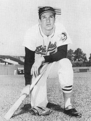 Professional baseball player Brooks Robinson